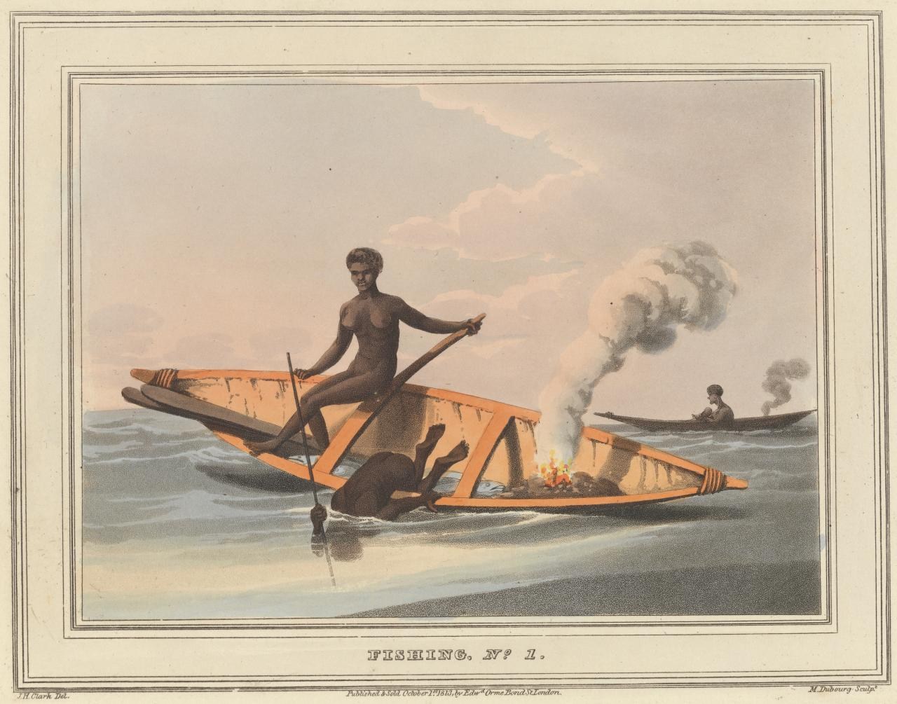 "Fishing No. 1", plate 5 from Field Sports &c. &c. of the Native Inhabitants of New South Wales (London: Edward Orme, 1813) Matthew DUBOURG (engraver) John HEAVISIDE CLARK (drawn by)